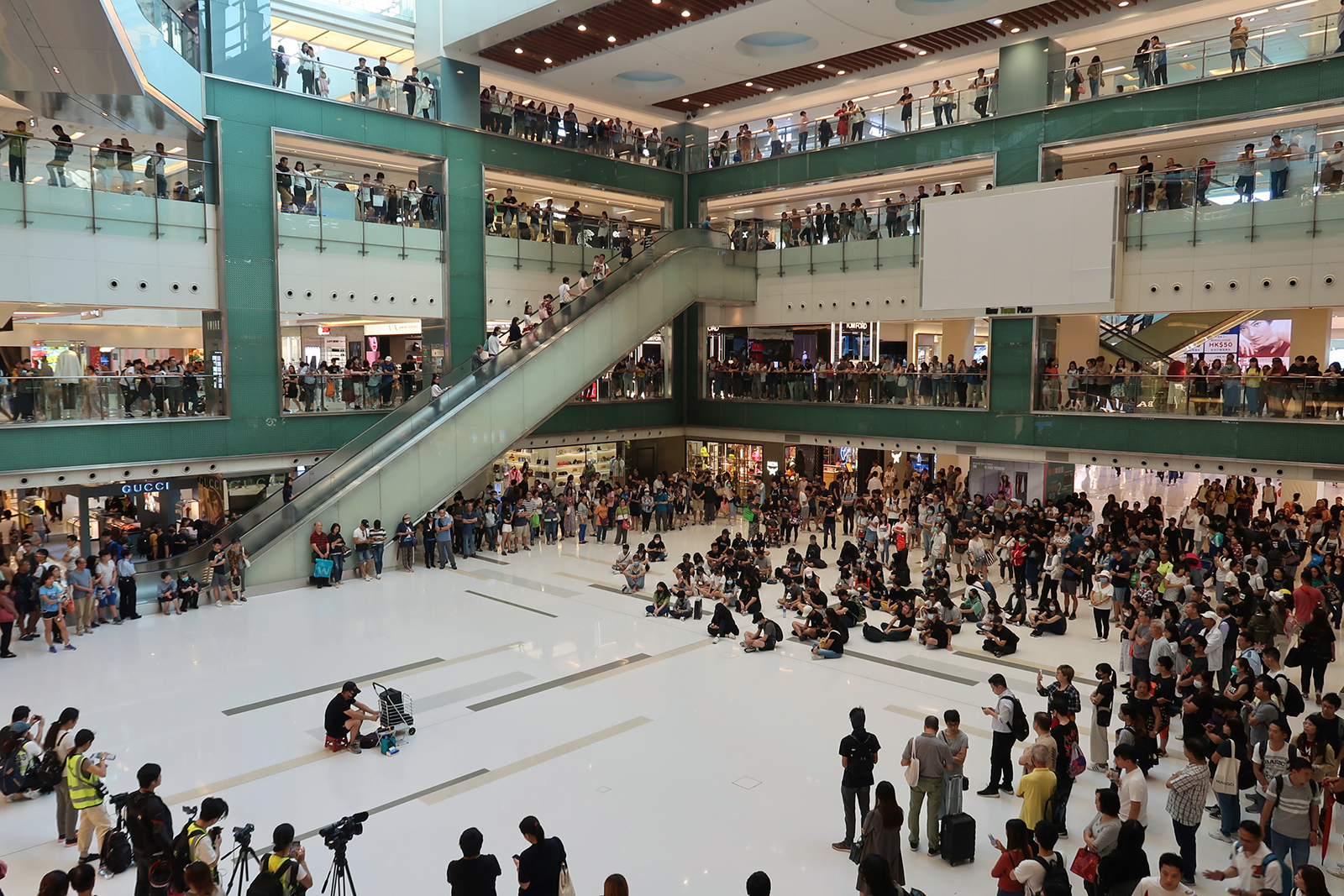 Protester in New Town Plaza